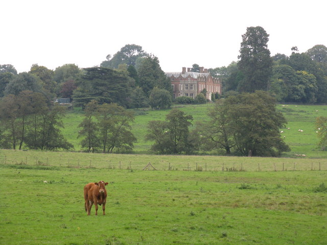 Feeling lucky? This cow was guarding the bridlepath to Buckenhill Manor, visible in the distance. I stayed my side of the intervening fence!